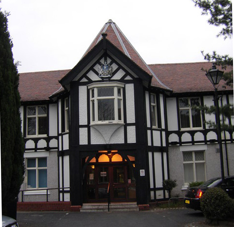 Poulton Civic Centre, near to Poulton-le-Fylde, Lancashire, Great Britain. This building, now a civic centre, was a convalescent home for the cotton industry in the 1950s. Later in the 1980s it was a campus for Preston Polytechnic - now University of Central Lancashire - where I was a student. The place was said to have a ghost in those days but I never saw it.